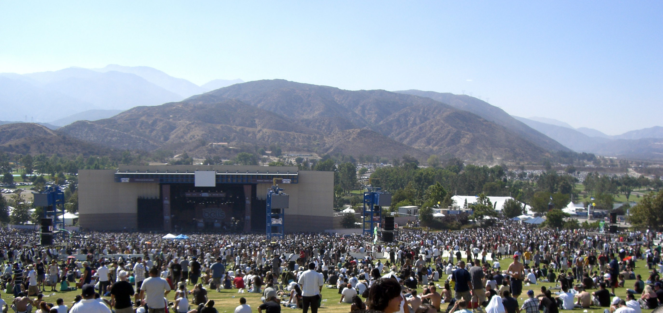 San Manuel Amphitheater — in Devore, San Bernardino County, California.